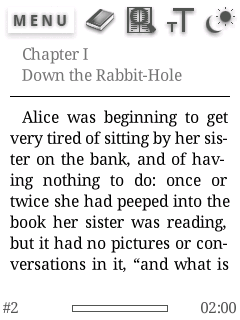 The main screen of Albite READER 2